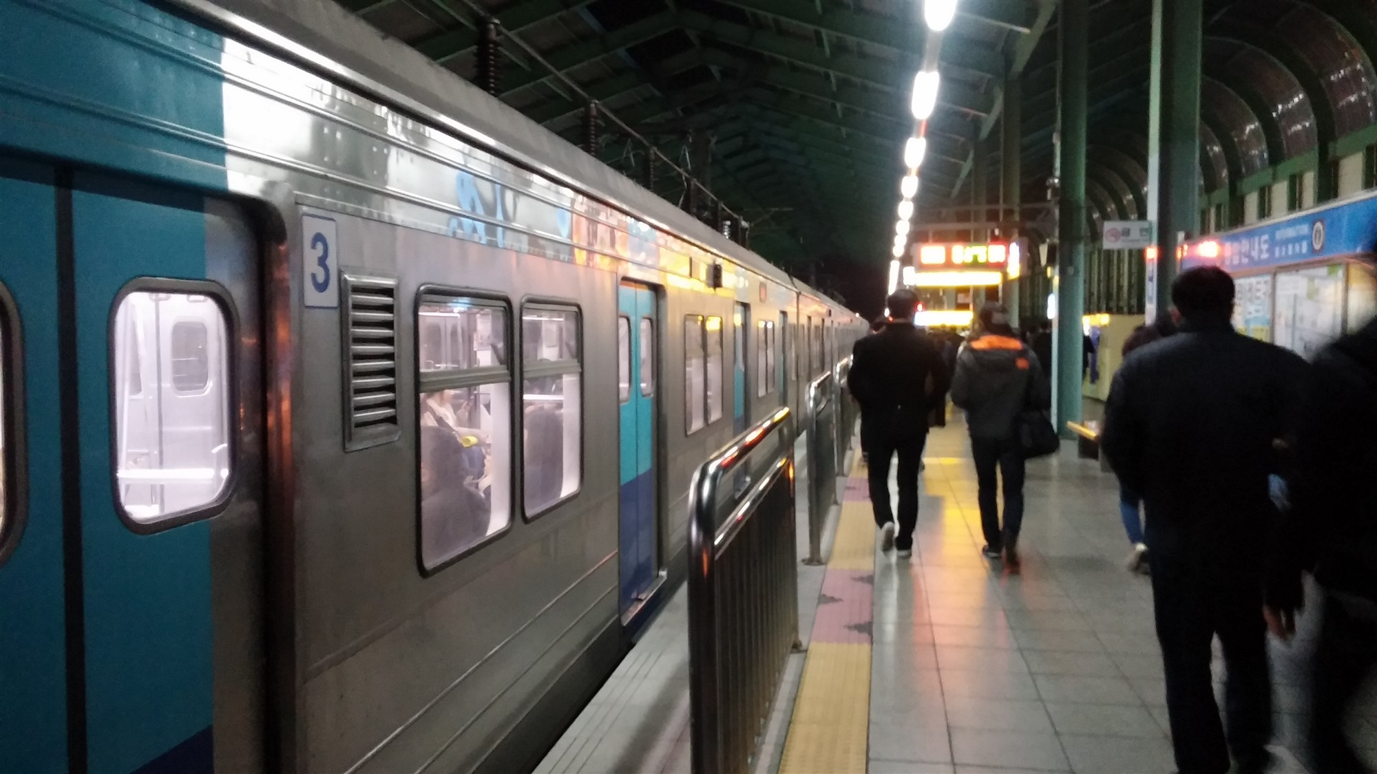 Gojan Station at night, Ansan, South Korea